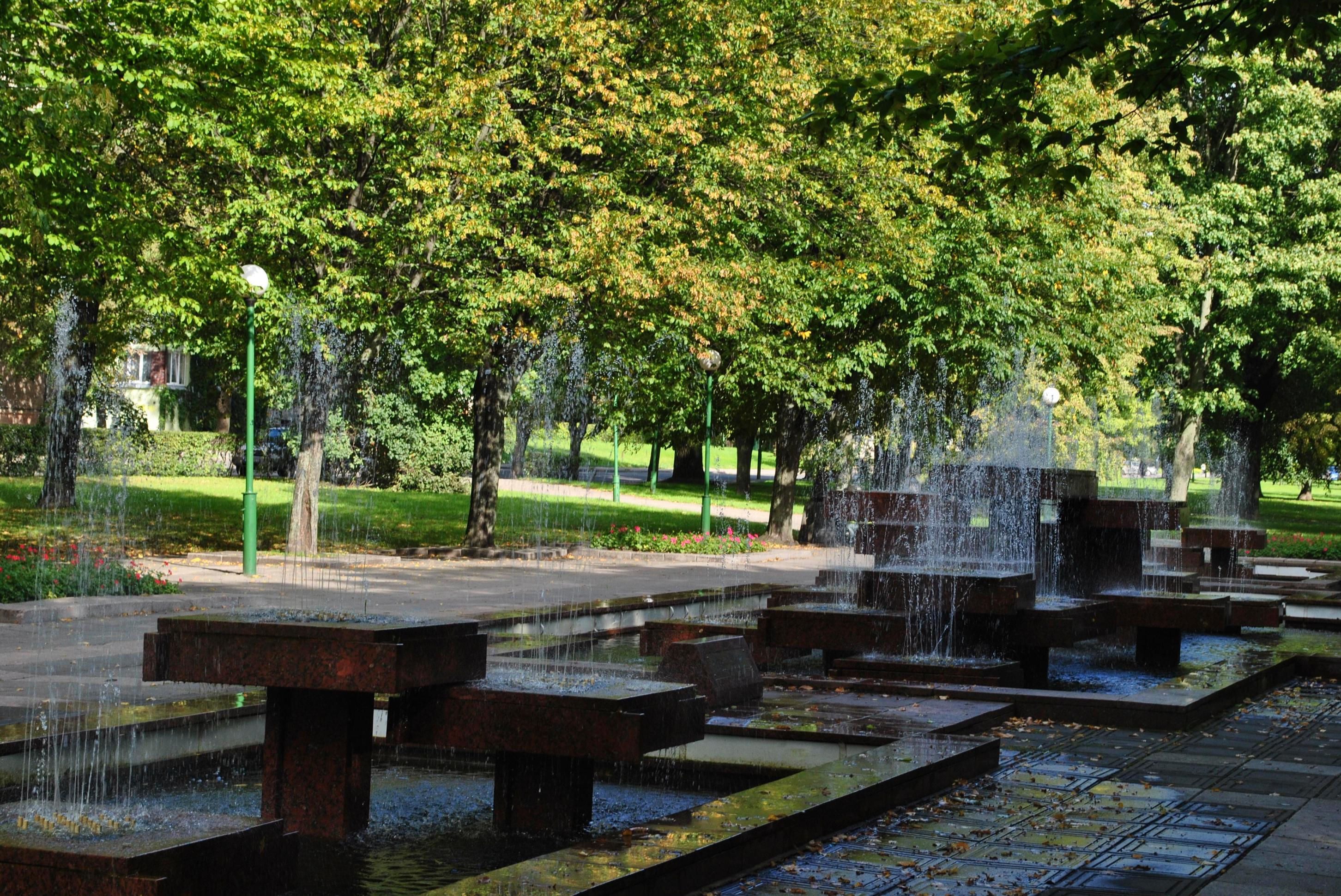 Danės skveras (Public garden near the river Danė) in Klaipėda